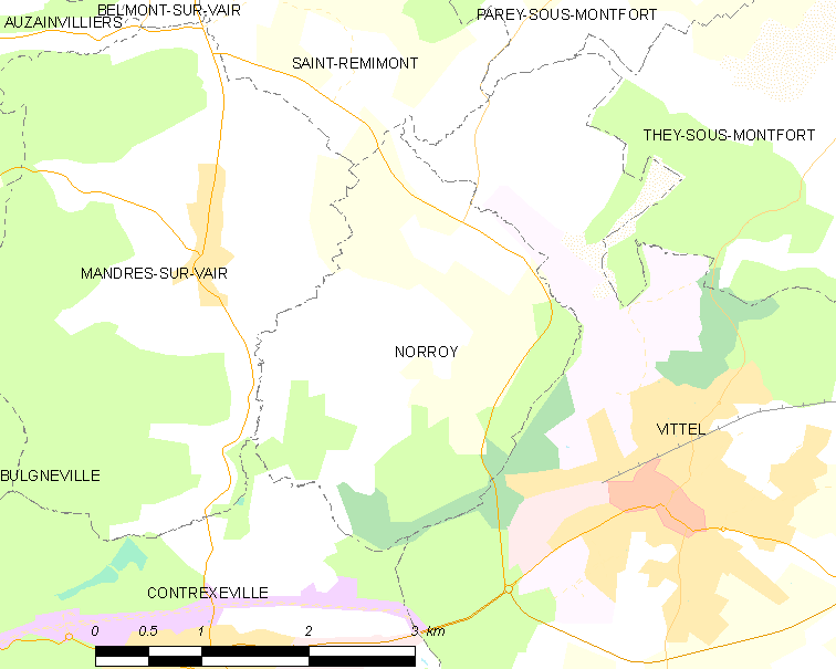 Map of French municipality Norroy